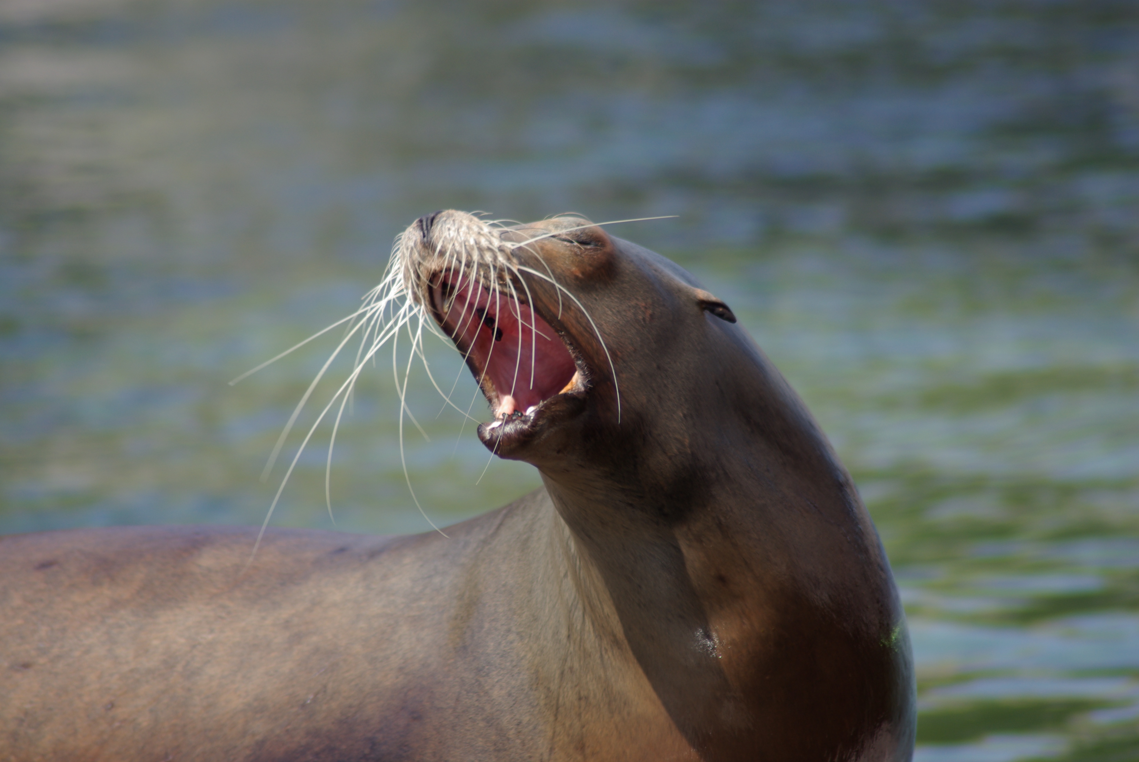 California Sea Lion, picture taken in Zoom Gelsenkirchen in Germany